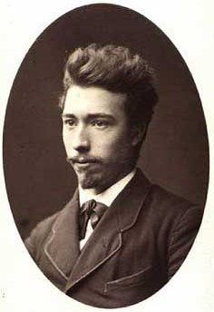 Erik Ludvig Henningsen (1855-1930), danish illustrator and painter.